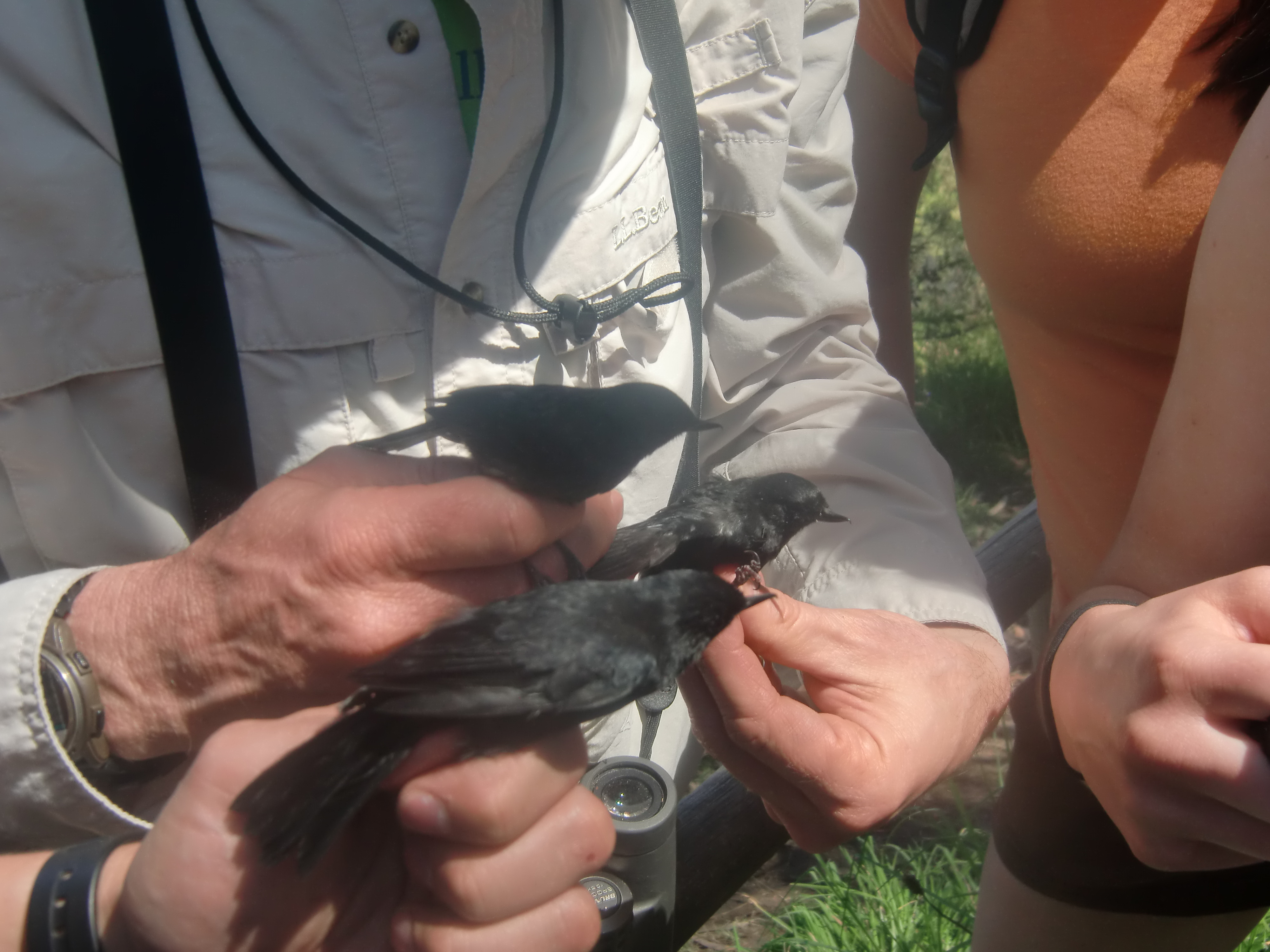 black flowerpiercer2